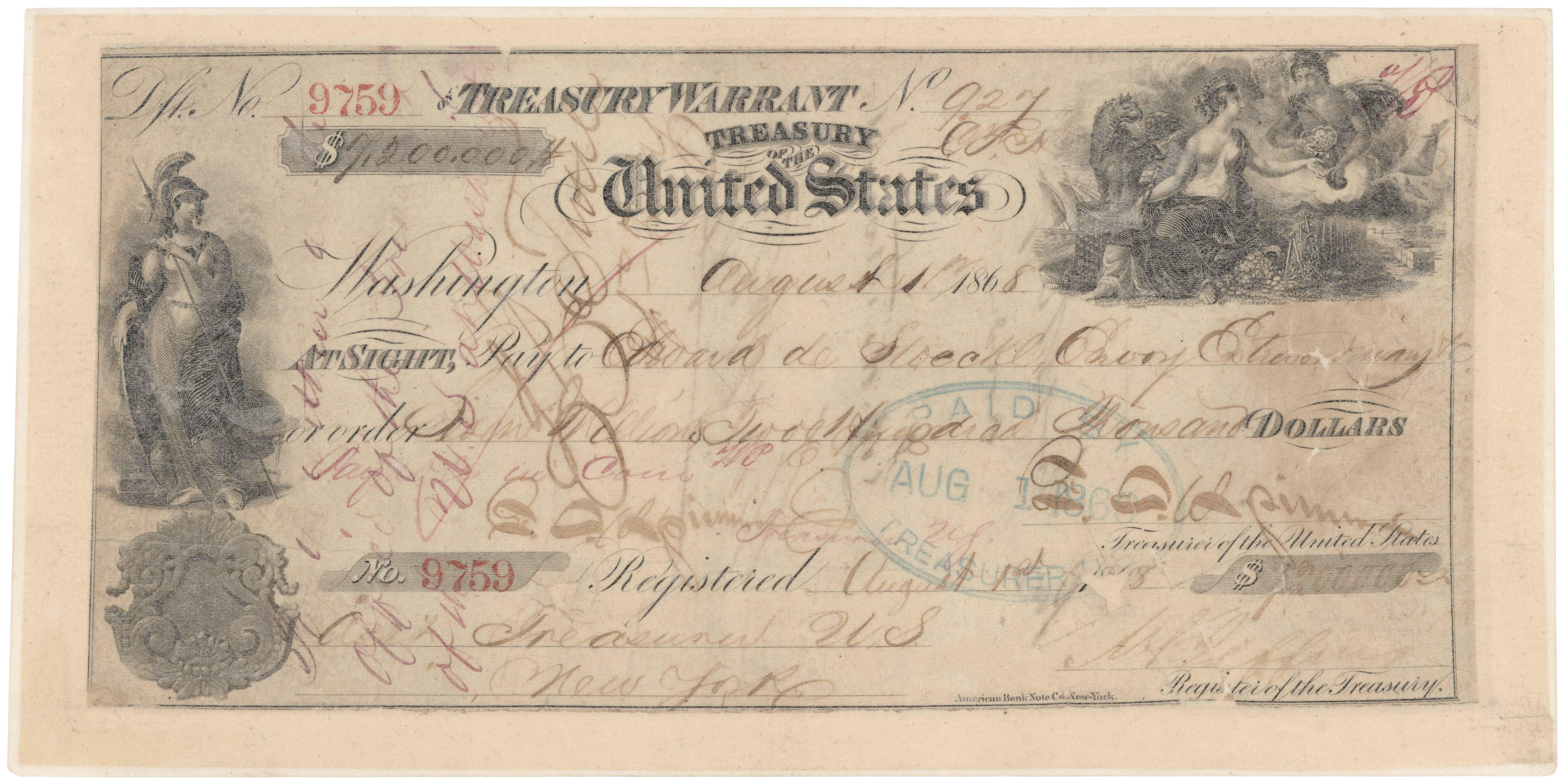 With this check, the United States completed the purchase of almost 600,000 square miles of land from the Russian Government. This treasury warrant issued on August 1, 1868, at the Sub-Treasury Building at 26 Wall Street, New York, New York, transferred $7.2 million to Russian Minister to the United States Edouard de Stoeckl. The purchase price of the 49th state? Less than two cents an acre. Original located in the National Archives, Records of the Accounting Officers of the Department of Treasury.